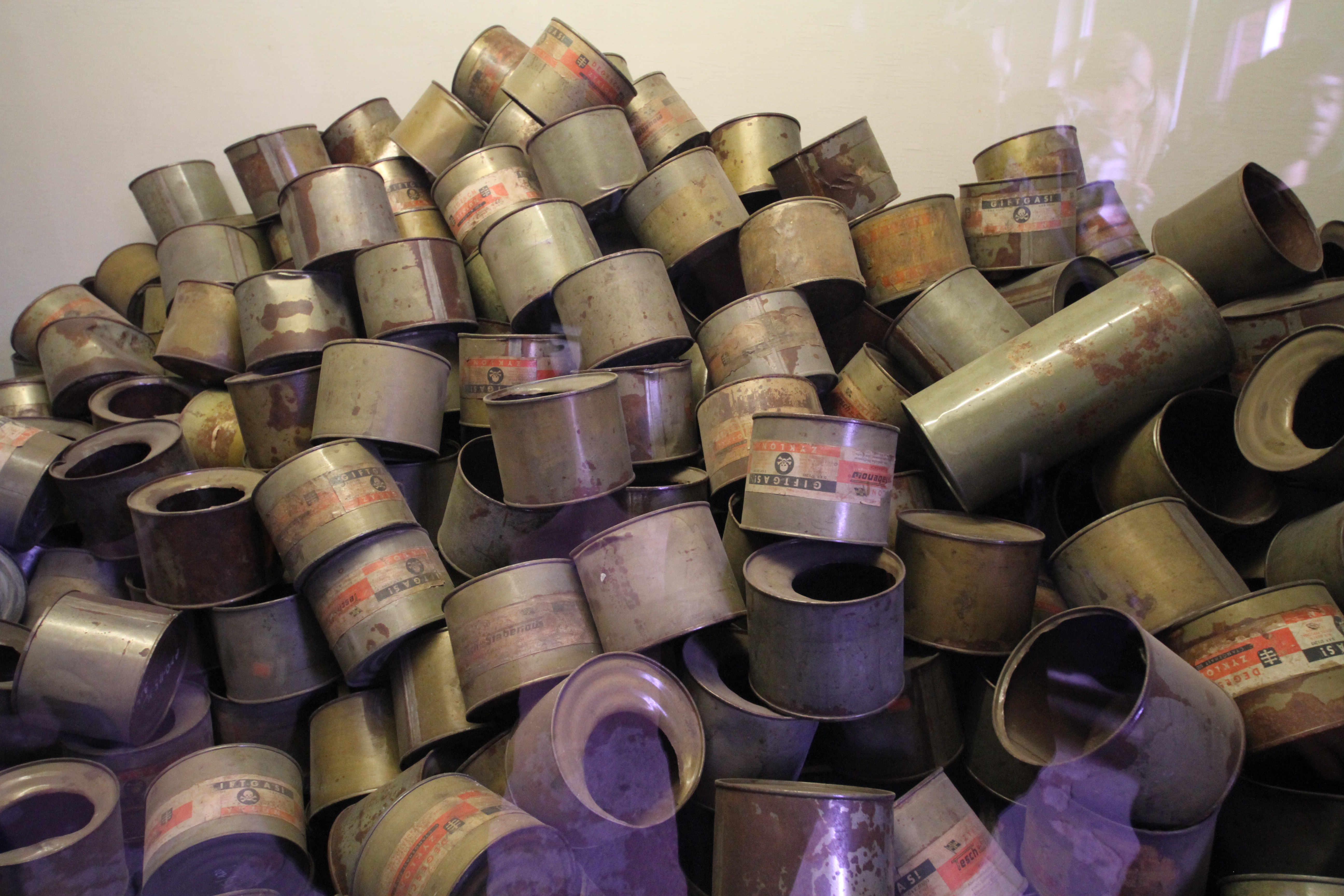 Zyklon B in Auschwitz museum